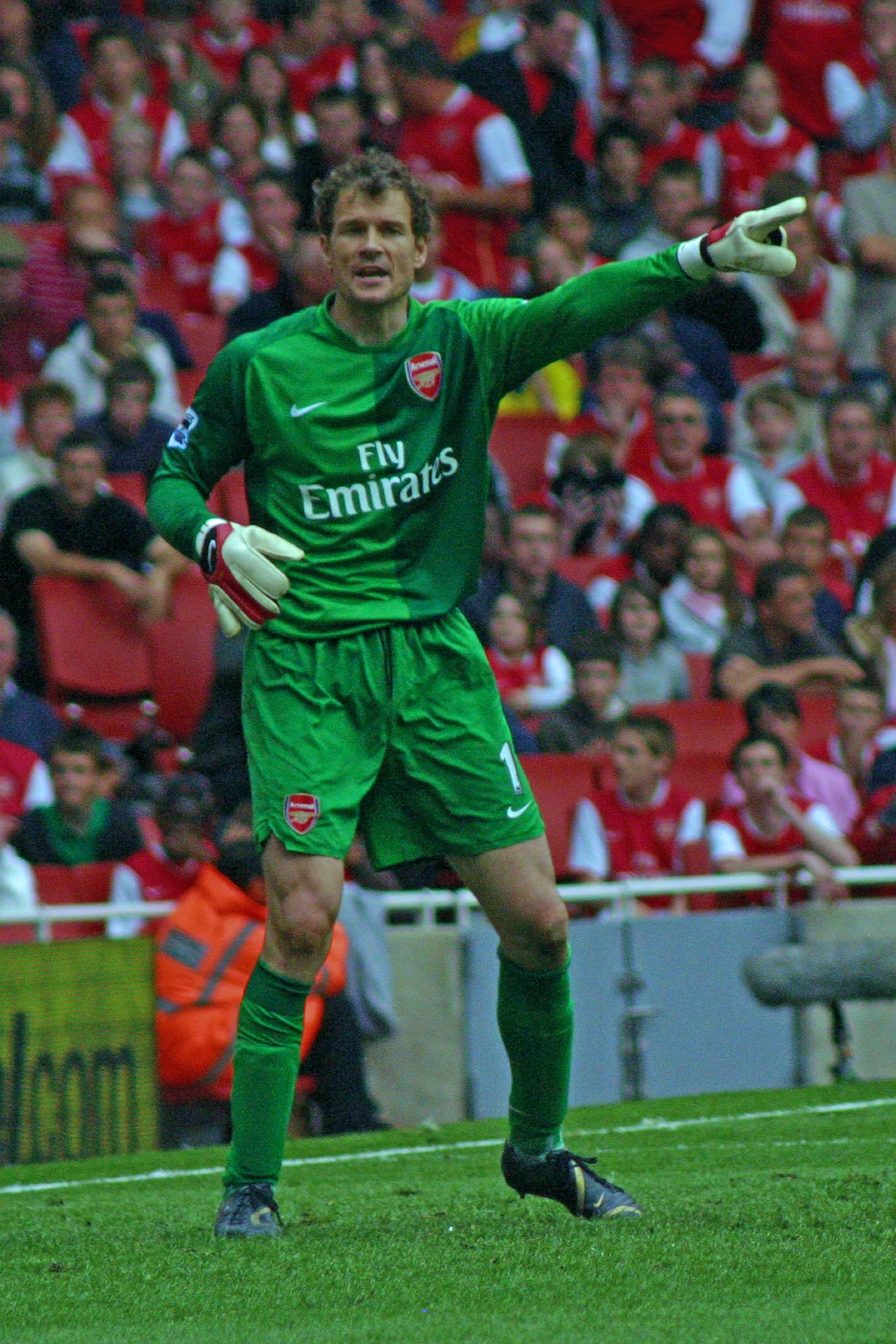 Jens Lehmann in 2007 ehile playing for Arsenal